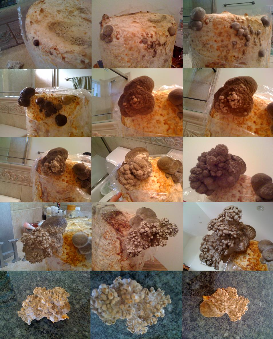 Time lapse of Maitake mushrooms growing from internet kit. This kit was bought at